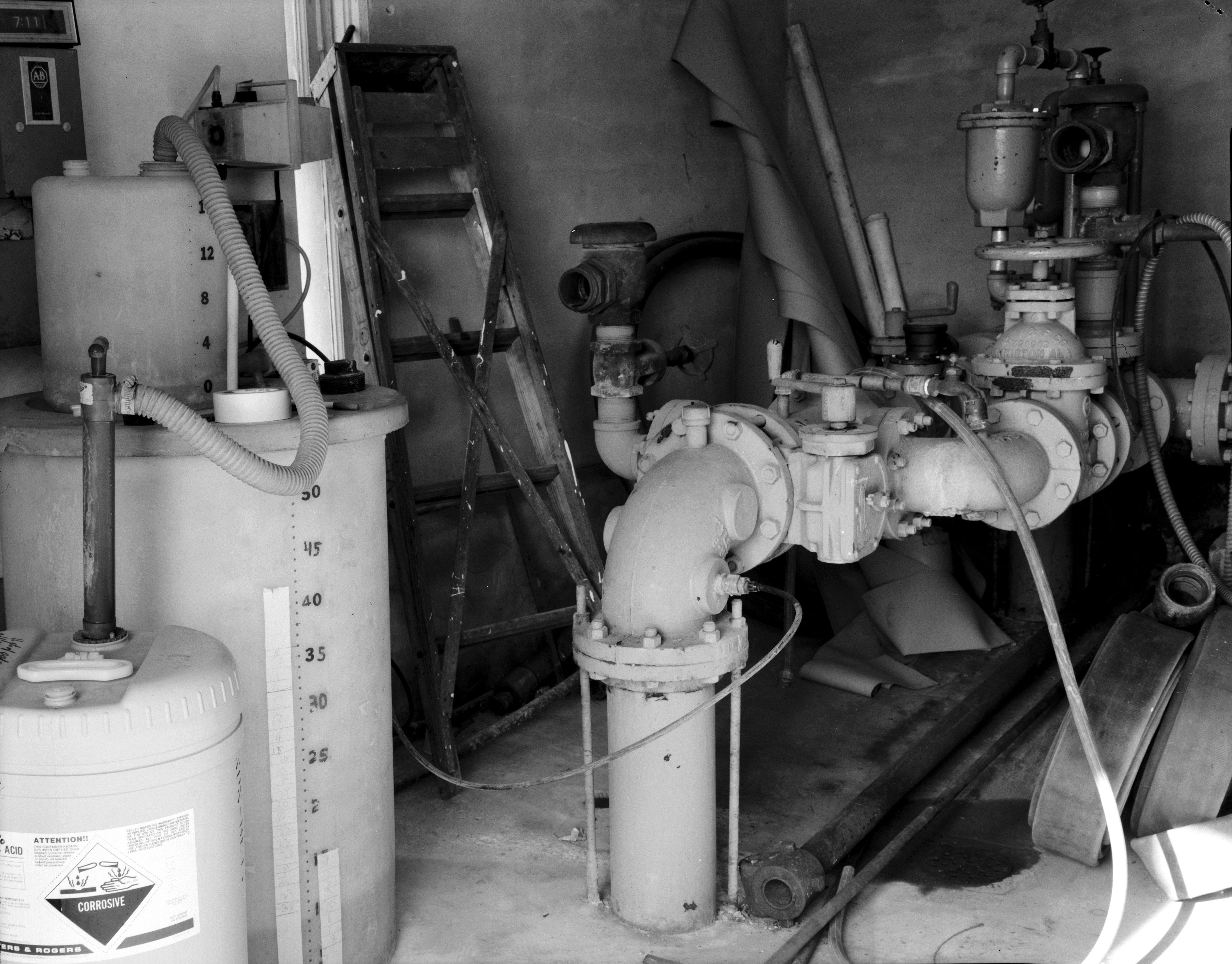 Detail interior view of Elysian Water Tower, Pumphouse, Frank Street Northeast, Elysian, Le Sueur County, Minnesota, showing fluoride monitor and main piping from Well No. 1. Original is 4 × 5 in. photograph.